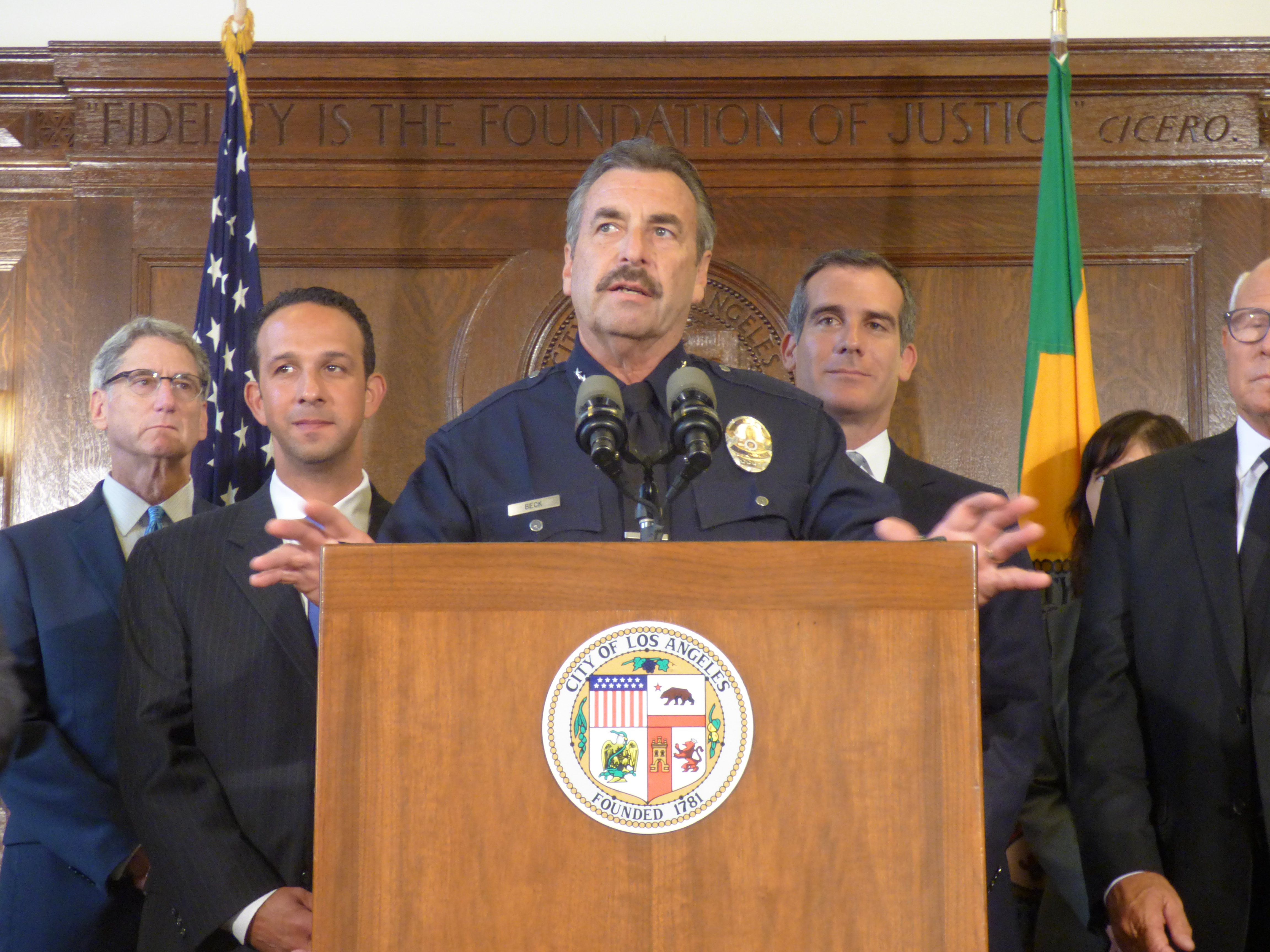 Mayor Eric Garcetti announces LAPD Chief Charlie Beck's reappointment to a five-year term as police chief following his confirmation by the Los Angeles Police Commission